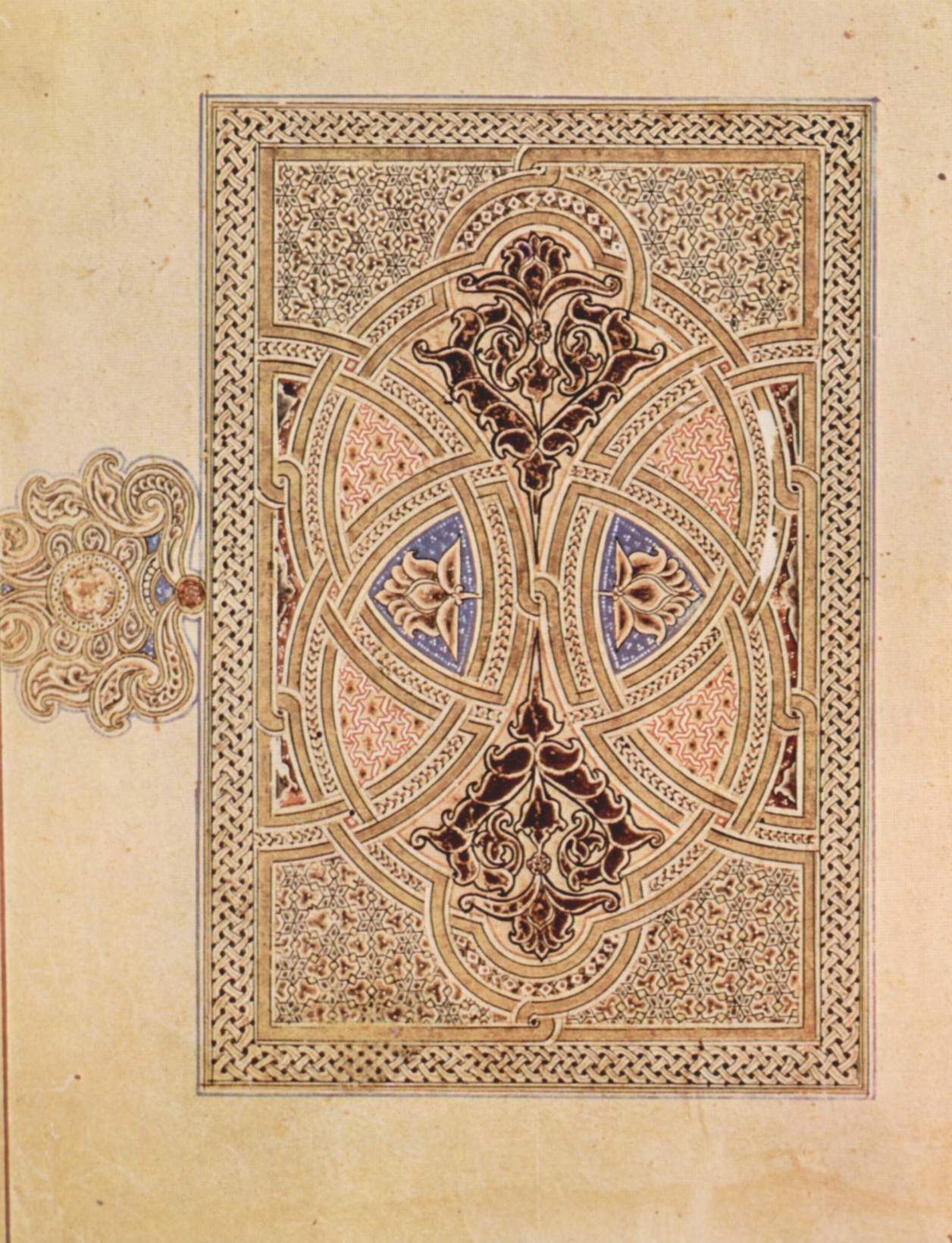 Illuminated frontispice of a Quran